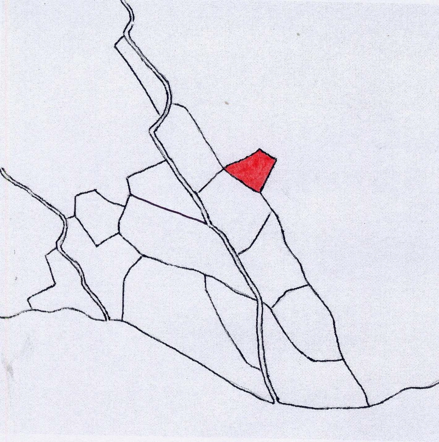 Vishnevaya microdistrict in Tsentralny City district of Sochi